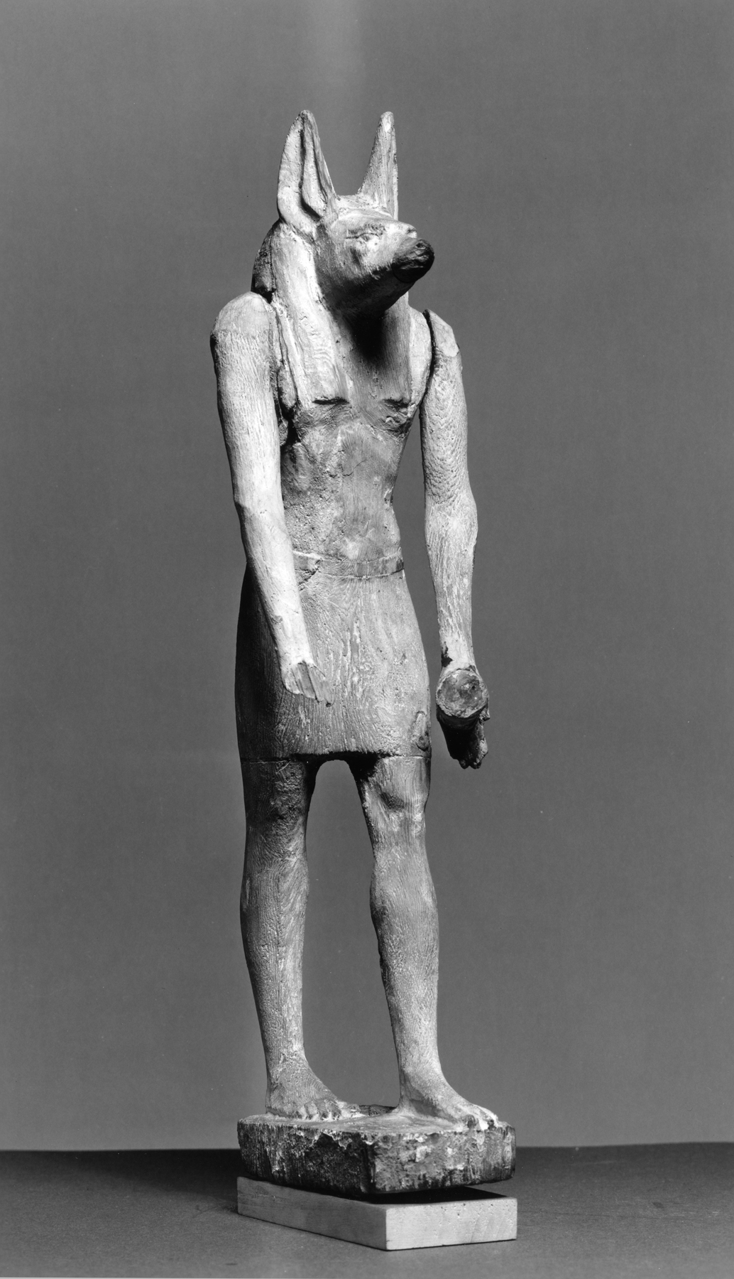 Anubis, the god of embalming and protector of the deceased, is depicted with a man's body, a jackal's head, and long wig. The arms and the tip of the nose were made separately. The figure was likely made for a tomb.